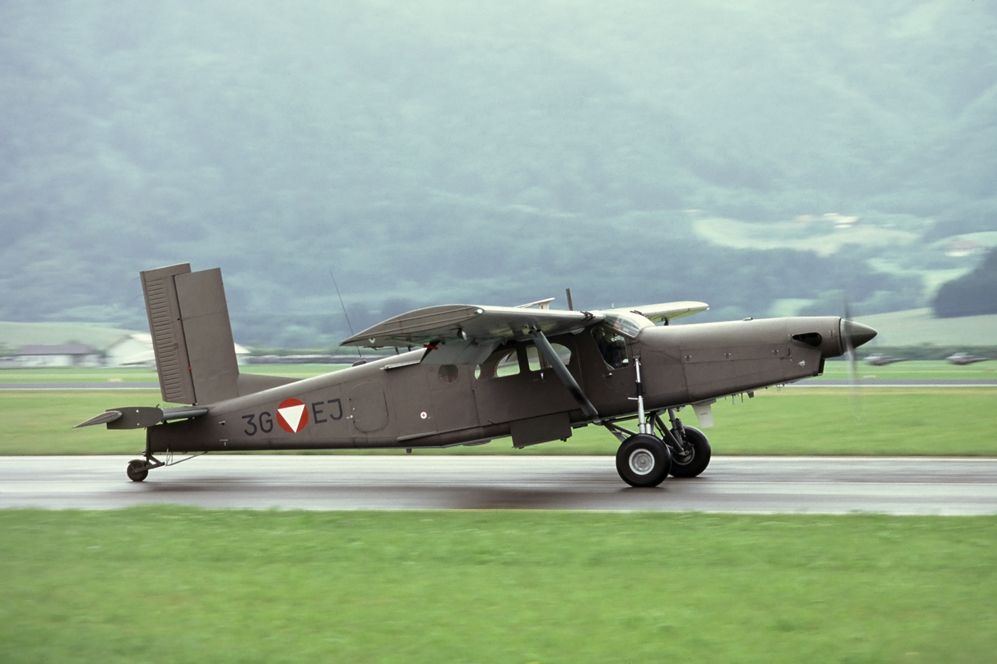 Zeltweg (Austria), 19 June 1997. One of the locals. Taken off in a rain shower.